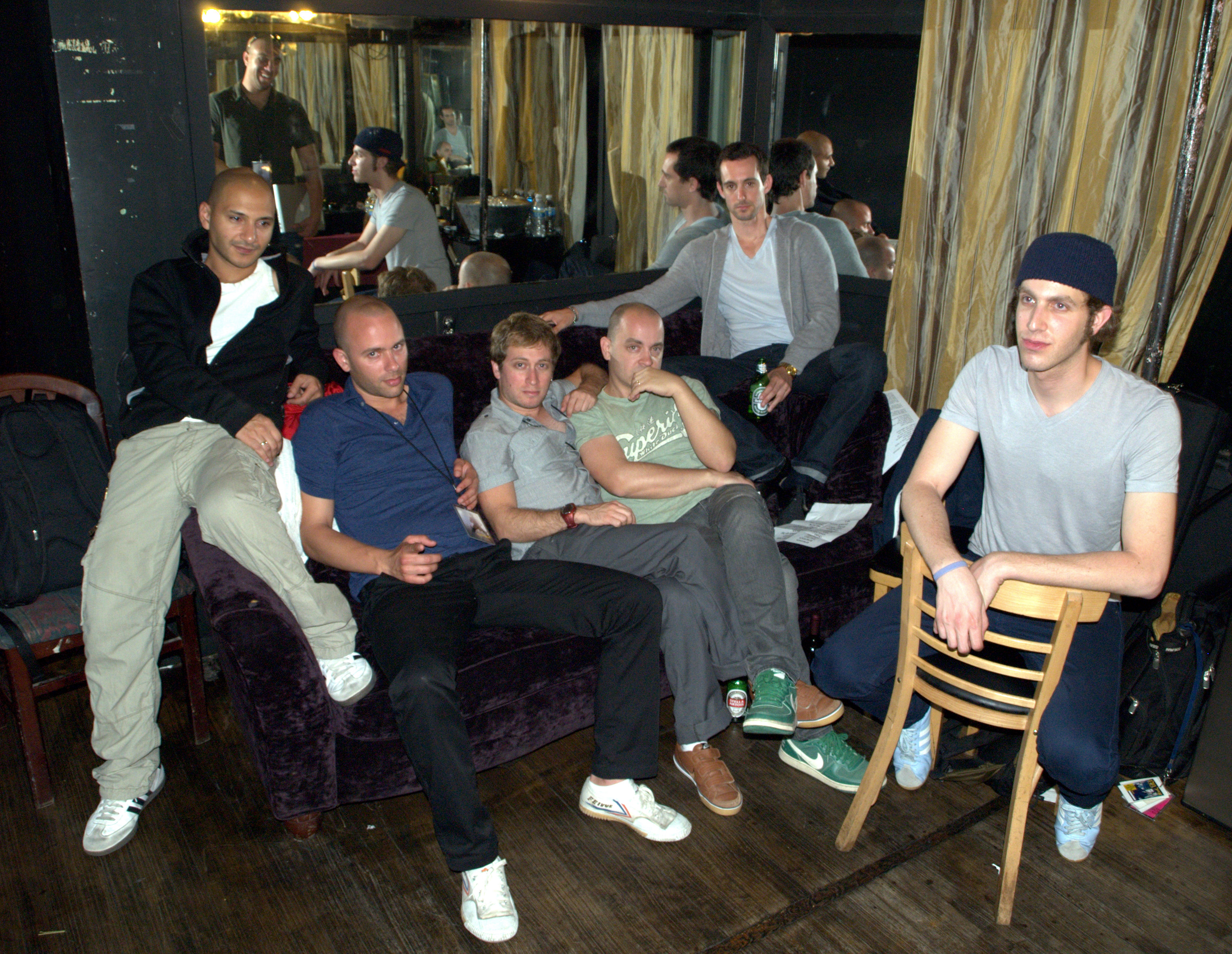 Ivri Lider and his band backstage at Webster Hall in New York City. Photographer's blog post about photo(s).